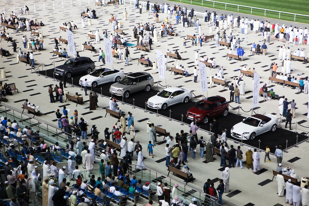 Al Tayer Motors is a regular sponsor of horseracing and also supports a domestic “Racing at Meydan” card in December as well as the 3200m stayers’ race, the Group 3 $1million Dubai Gold Cup on Dubai World Cup day, March 30 2013.